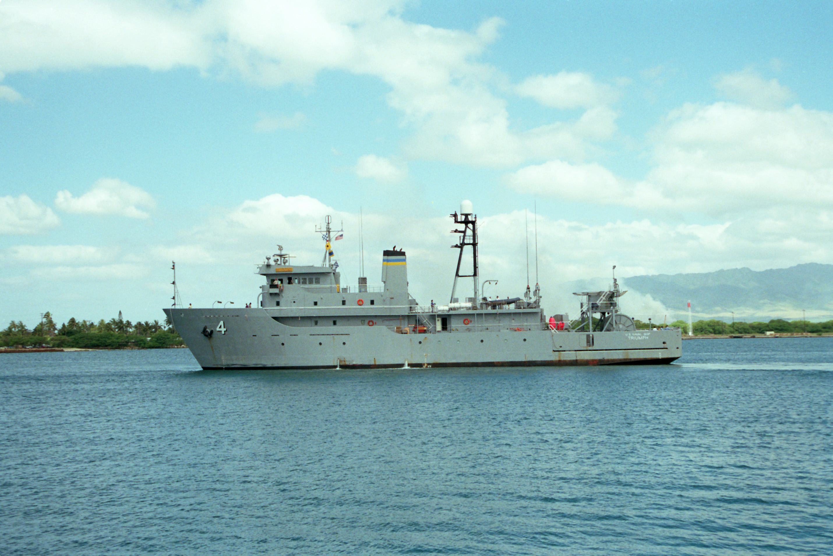 A port beam view of the Military Sealift Command ocean surveillance ship USNS TRIUMPH (T-AGOS-4) underway in the channel as it departs from the naval station. Location: NAVAL STATION, PEARL HARBOR, HAWAII (HI) UNITED STATES OF AMERICA (USA)